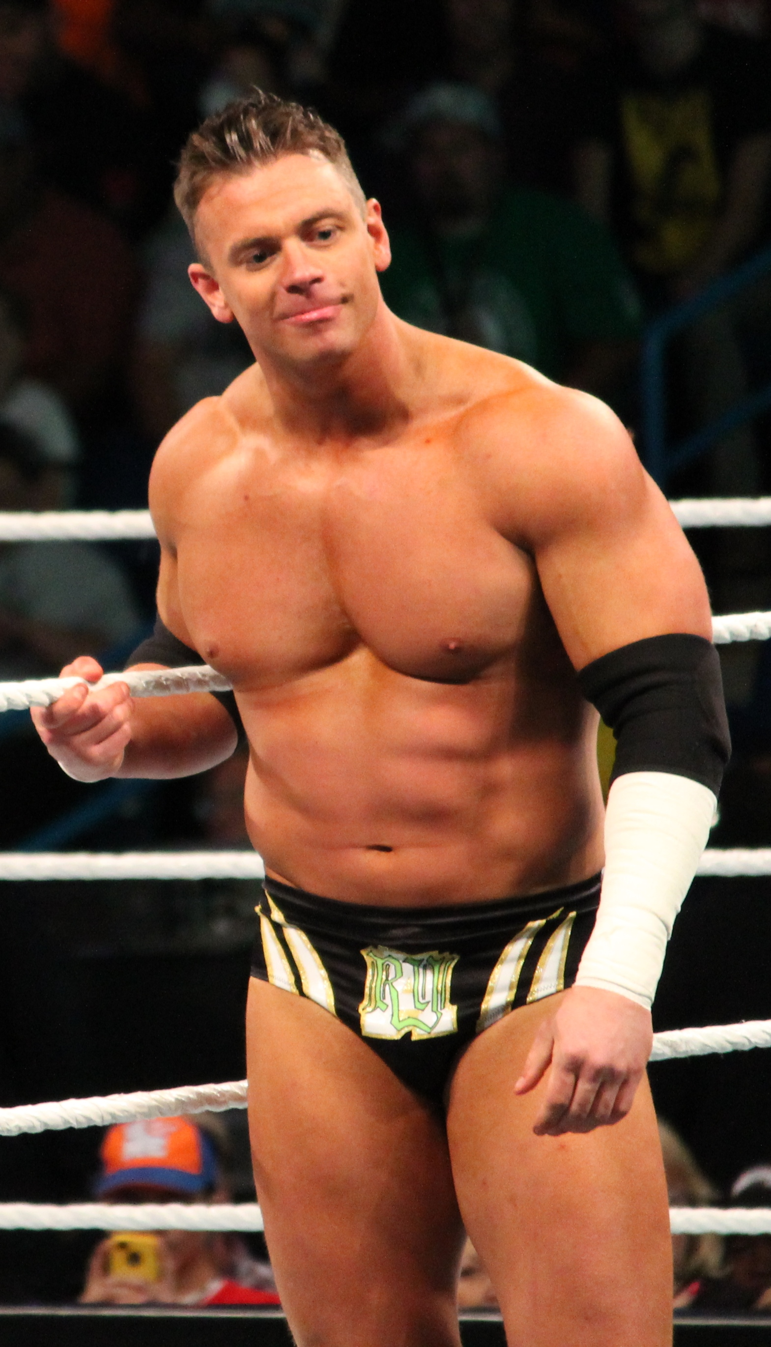 Alex Riley on RAW in 2012.